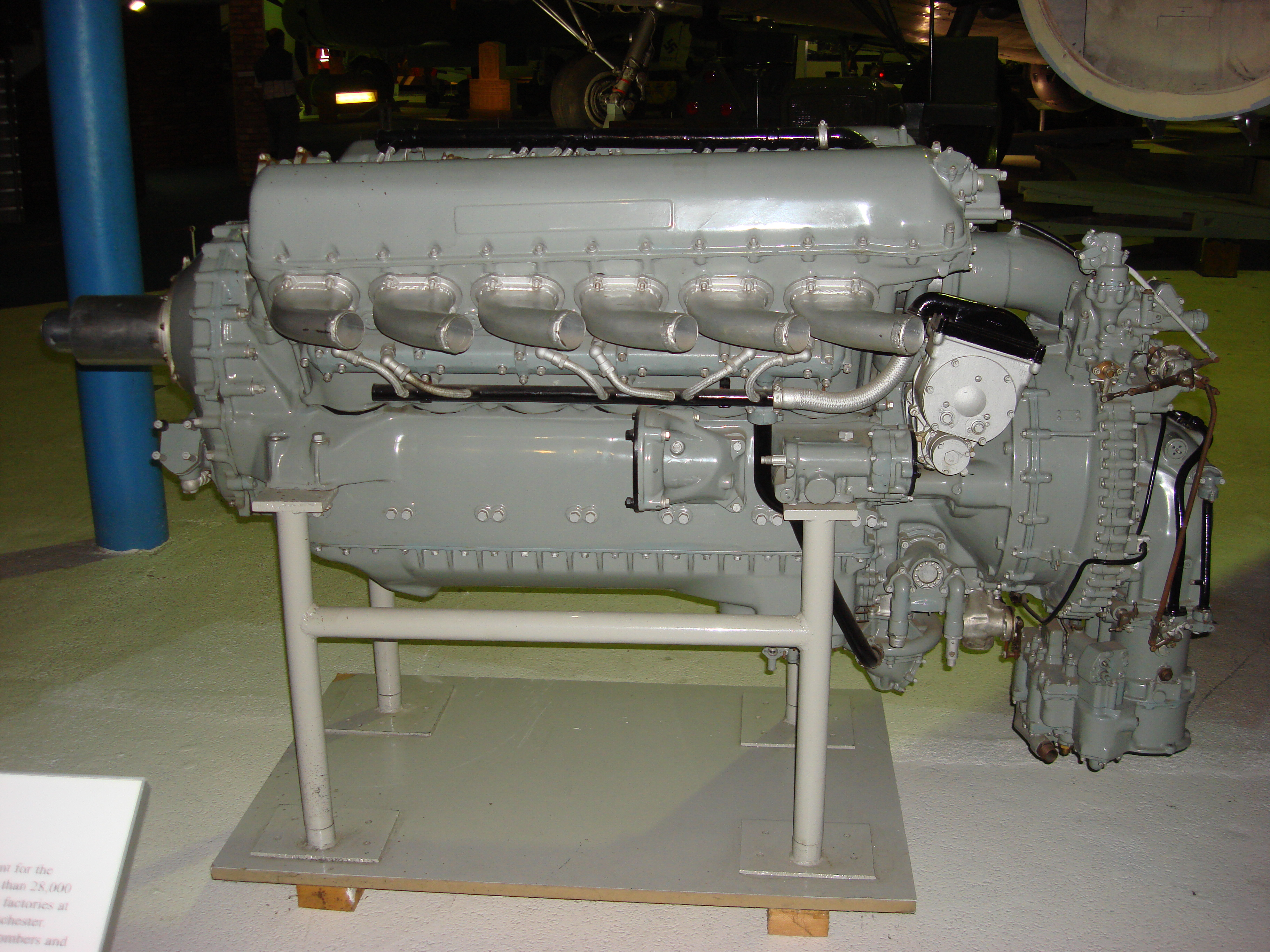 Rolls-Royce Merlin XX aircraft engine at the RAF Museum in London. This type of engine was used in Halifax and Lancaster Bombers, Defiant and Hurricane fighters